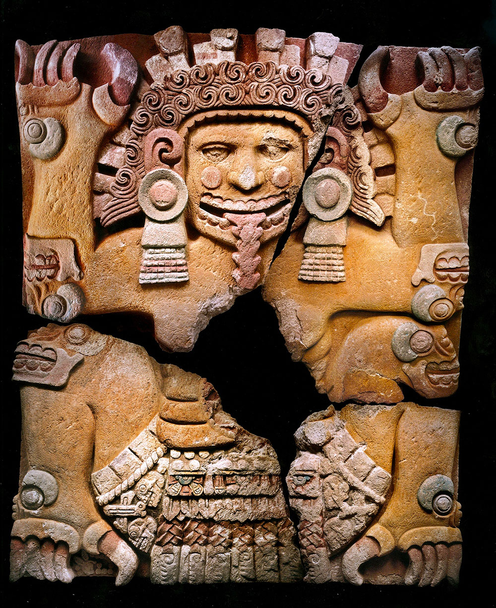 Tlaltecuhtli monolith unearthed in Tenochtitlan